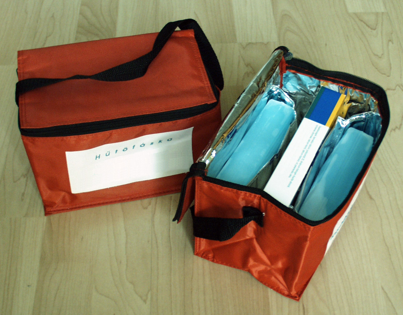 Risperidon cooler box (according to hungarian medicine advertisement law)